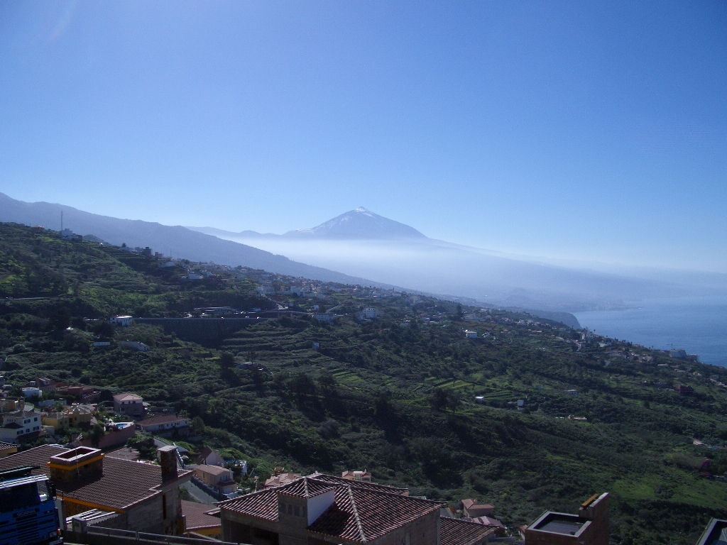 North of Tenerife (Canary Islands, Spain)